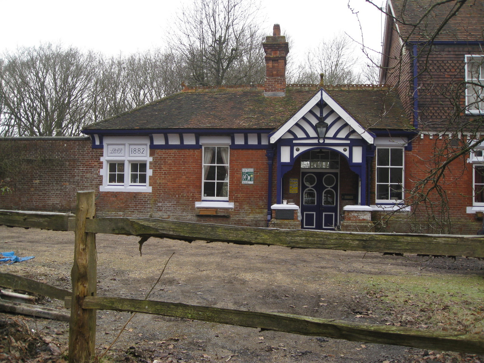 Barcombe Railway station ..... now a private house